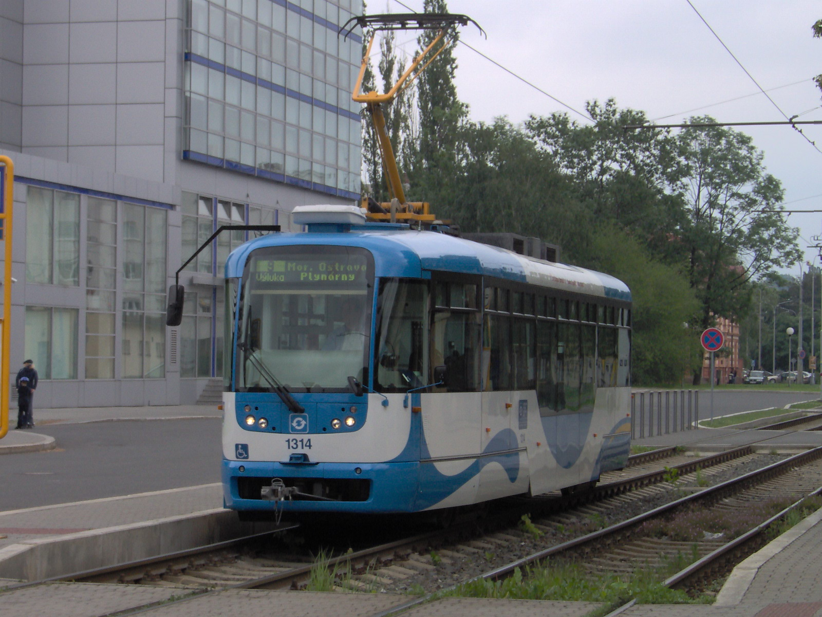 Vario LF tram in Ostrava